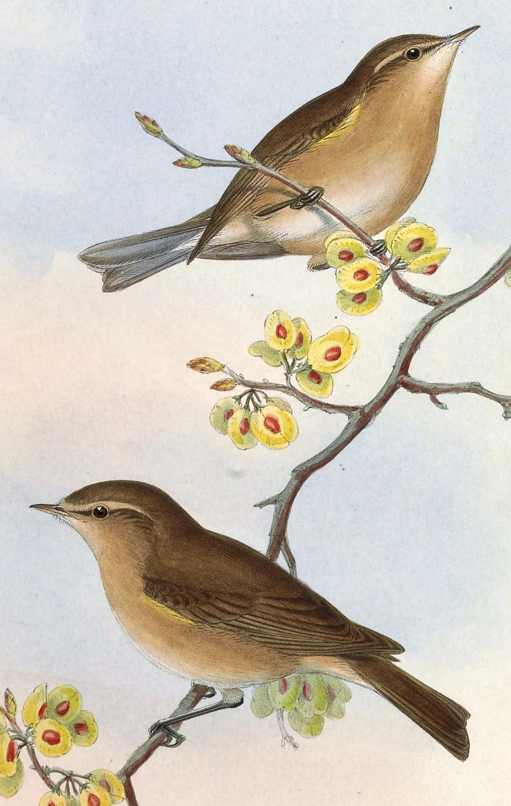 Phylloscopus tristis. John Gould. Birds of Asia